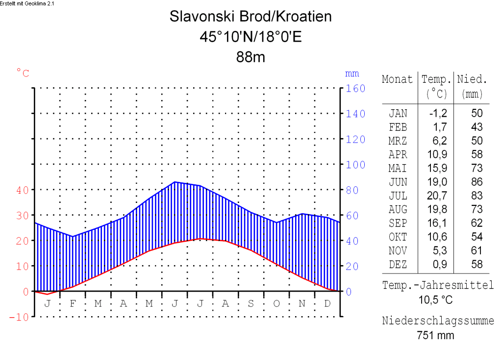 climate chart in the format by Walter and Lieth, metric, °Celsisus and millimeters, made with Geoklima 2.1